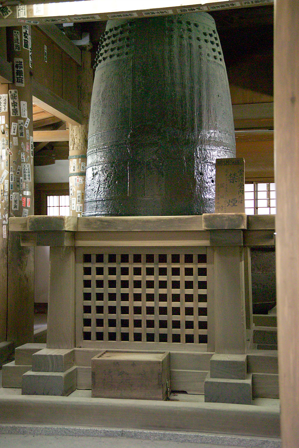 This bell is the Benkei Bell 弁慶の引き摺り鐘 at Mii-dera, a Buddhist temple in Otsu, Shiga Prefecture, Japan. I took the photo and contribute my rights in it to the public domain; individuals and organizations retain rights to images in it.